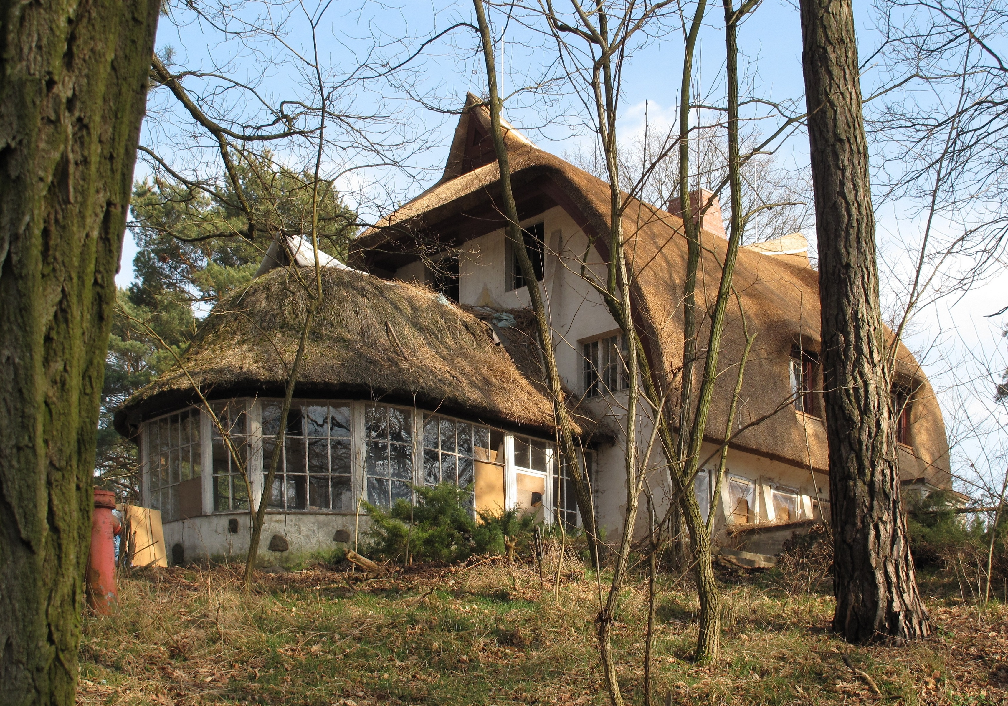 Listed Thorak-Haus in Bad Saarow, District Oder-Spree, Brandenburg, Germany. The Thorak-Haus was built in 1926-29 by the architect Harry Rosenthal for the sculptor Josef Thorak.